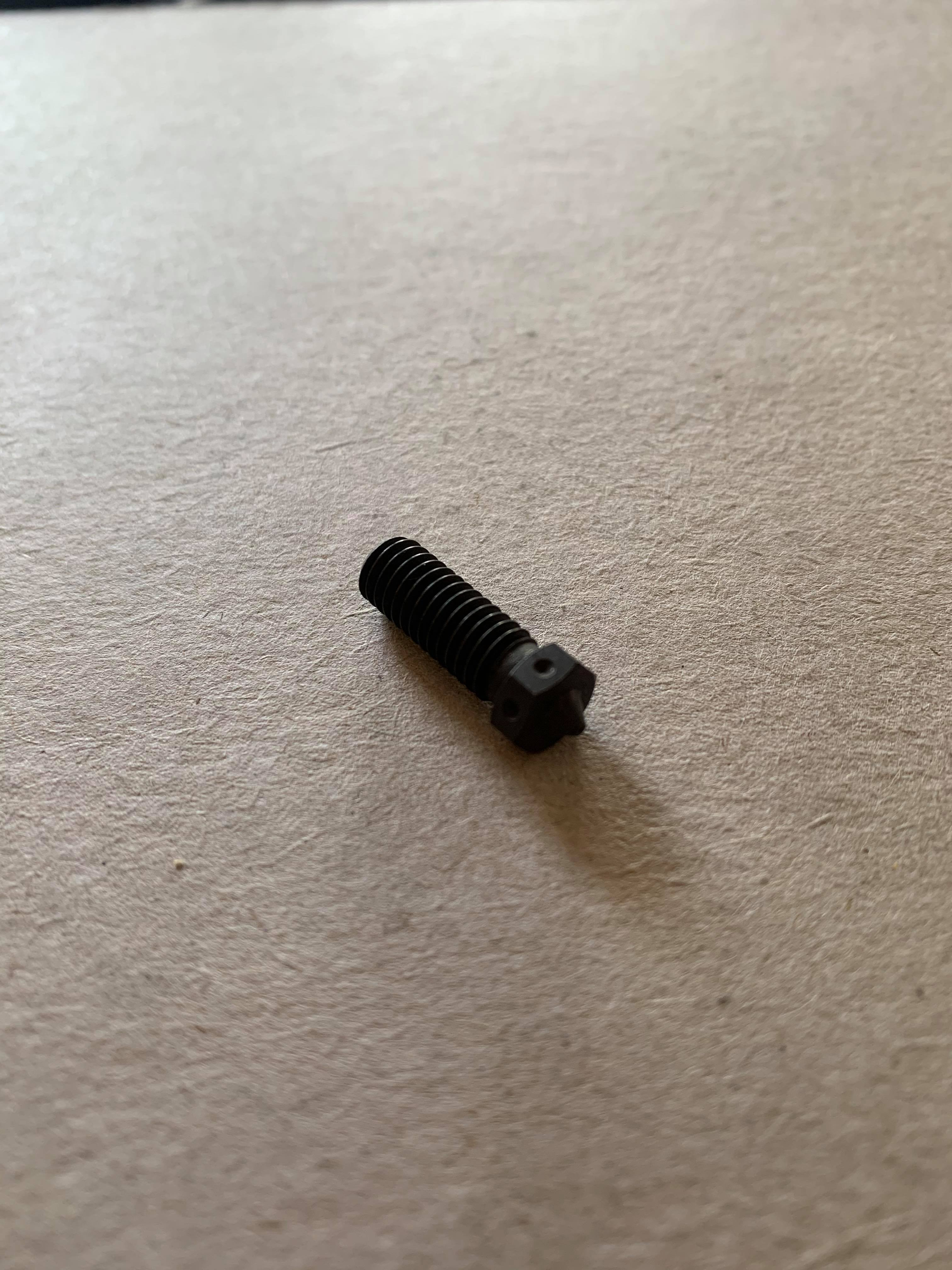 0.4mm nozzle for 3D printing